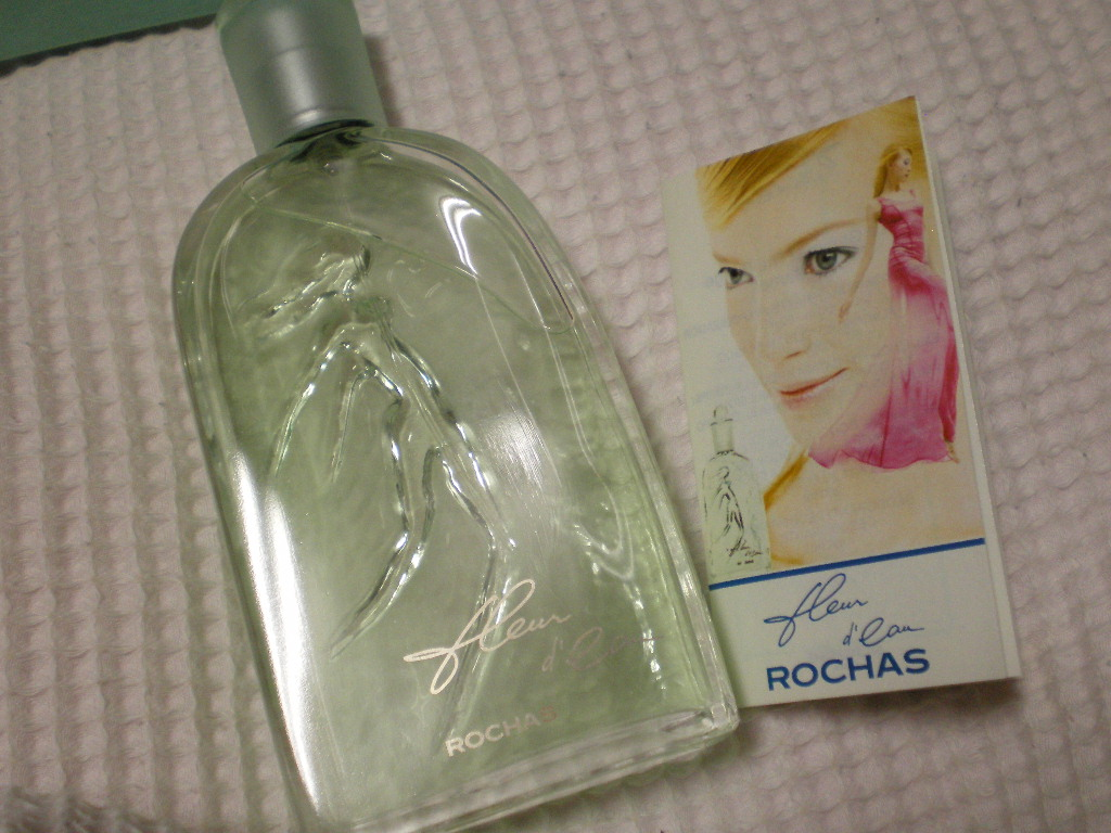 citlus